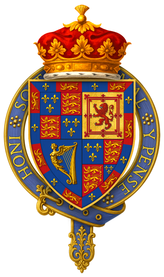 Coat of arms of James FitzJames, 1st Duke of Berwick, KG